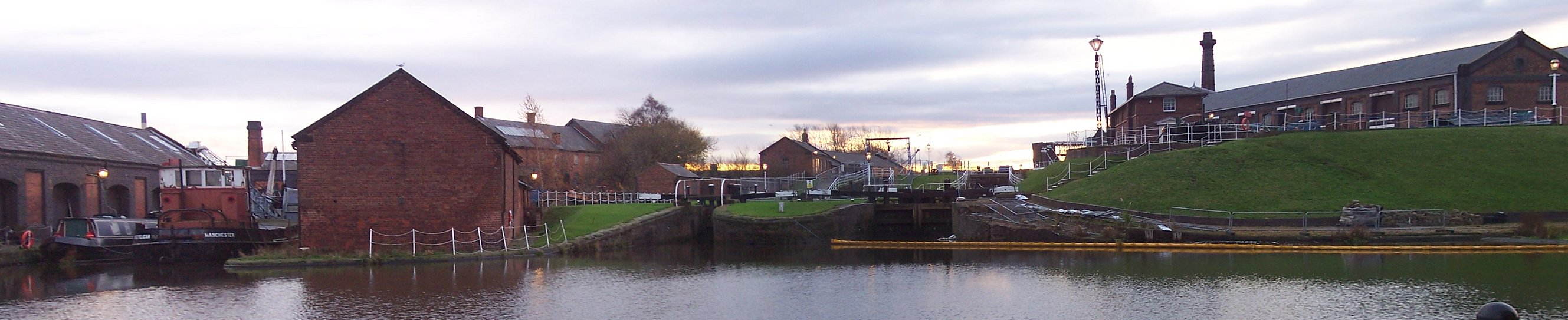 Whitby locks, Ellesmere Canal, Ellesmere Port basin, Ellesmere Port.